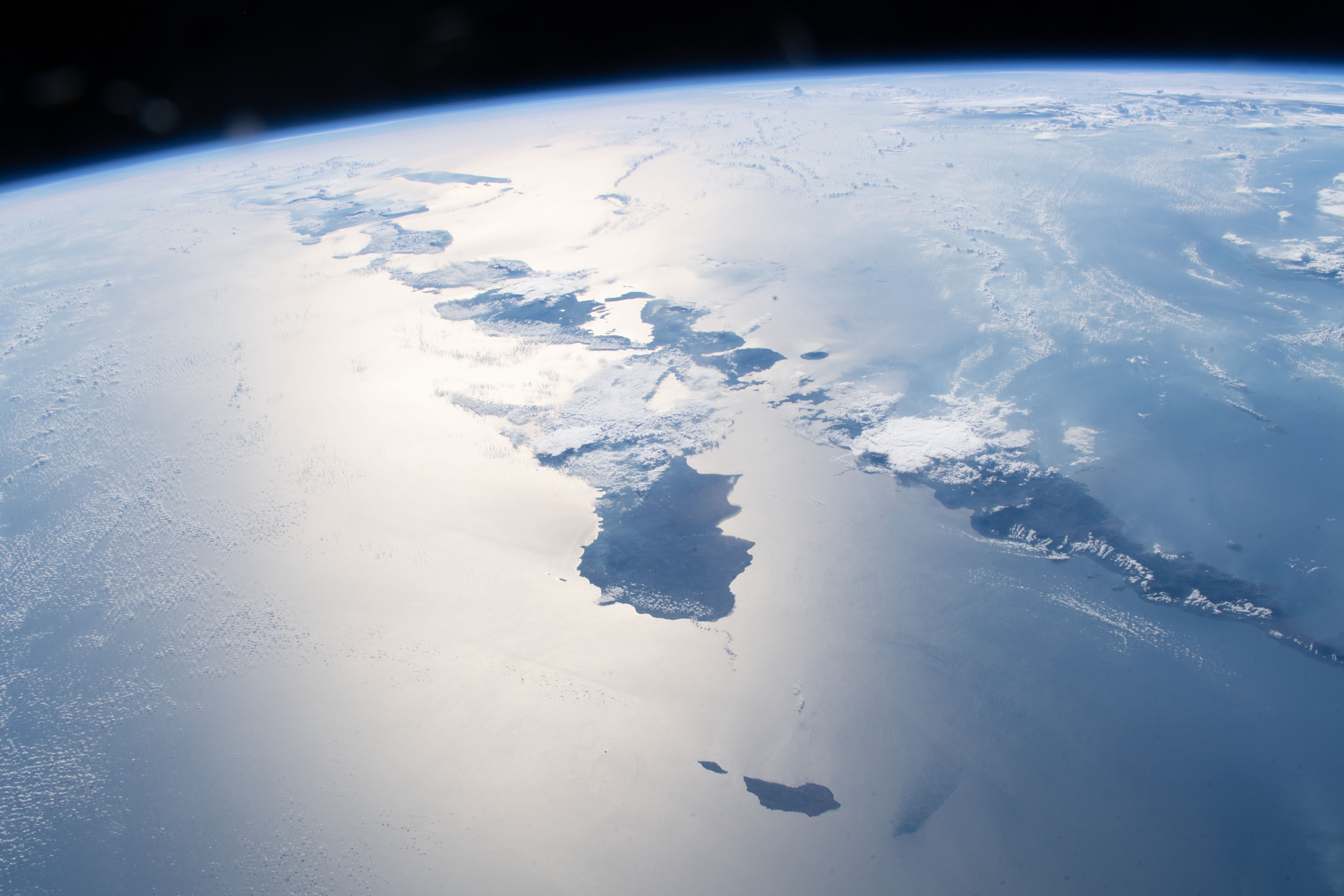 Just a few of the thousands of volcanic islands that make up the nation of Indonesia are pictured as the International begins an orbital pass over the Timor Sea after crossing western Australia.